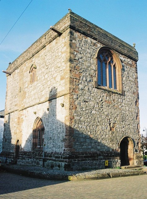 Dalton Castle is a 14th-century peel tower situated in Dalton-in-Furness, Cumbria, England, and in the ownership of the National Trust.